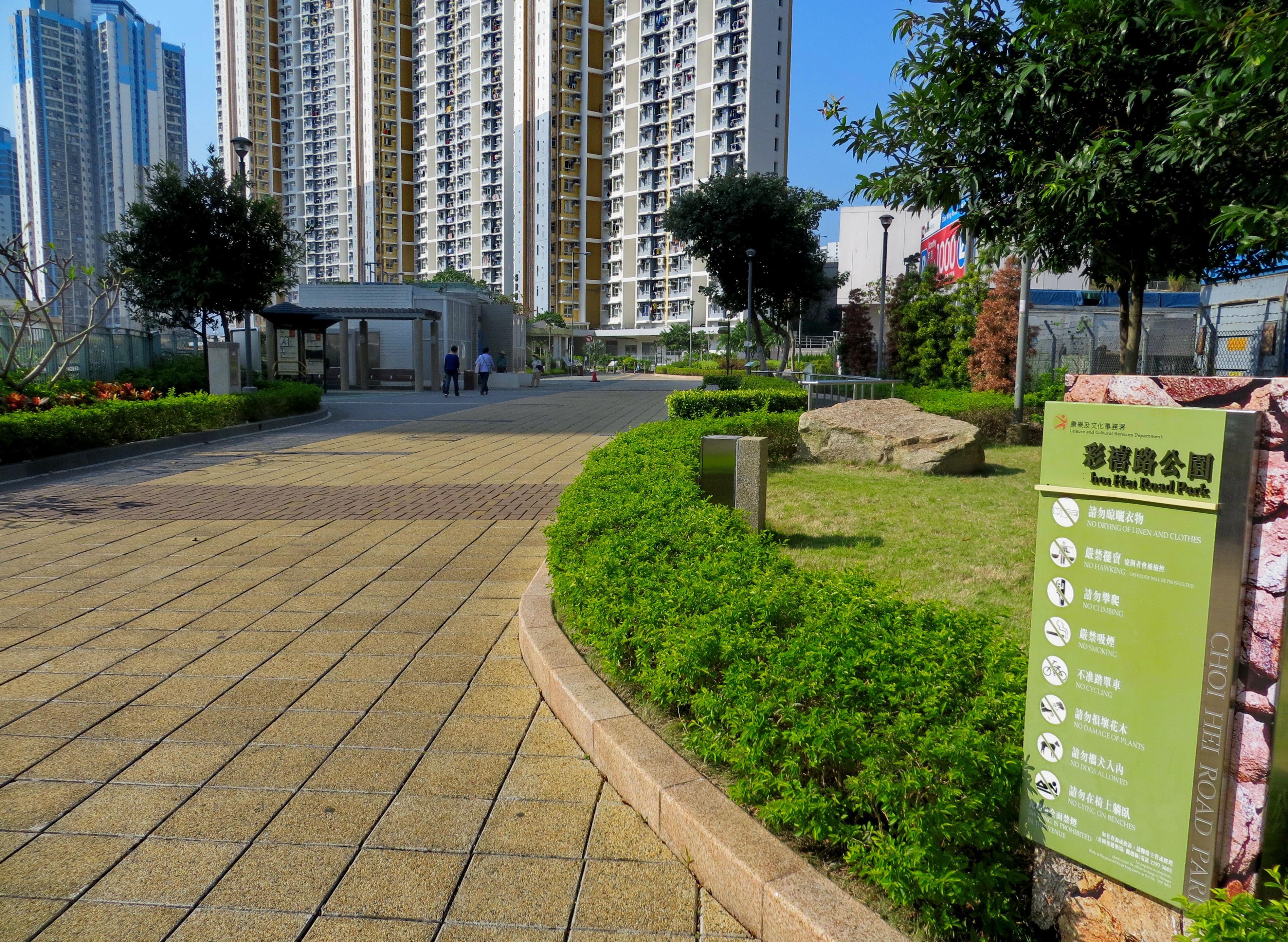 Choi Hei Road Park, Kwun Tong, Kowloon, Hong Kong.